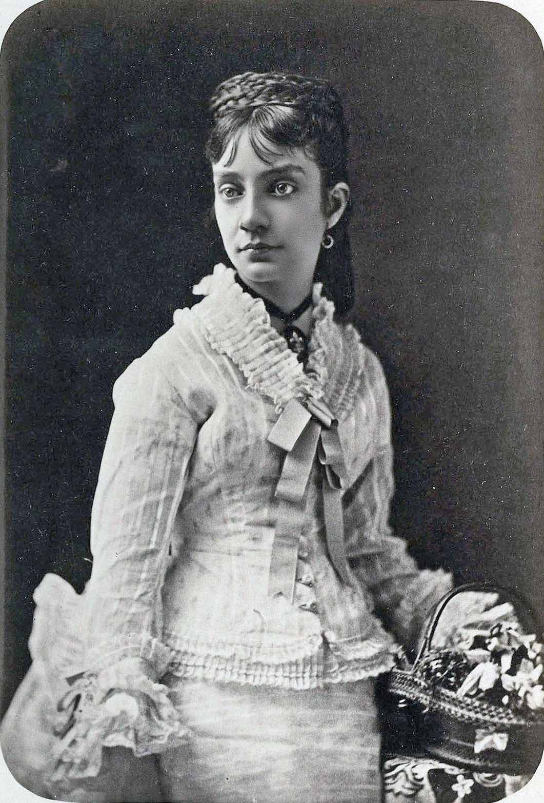 Inanta Pilar of Spain